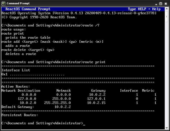 route command on ReactOS-0.4.13